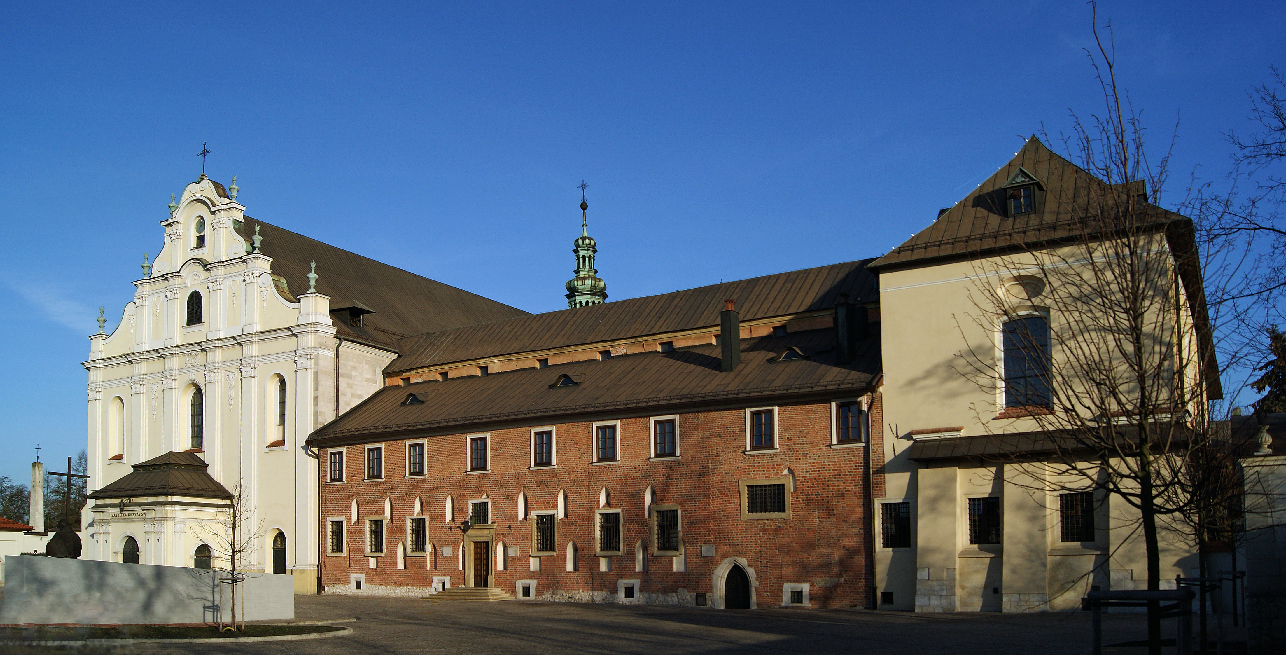 Church of Our Lady Assumed into Heaven and St Vaclav & cistercian abbey, 11 Klasztorna street, Mogiła, Nowa Huta, Krakow, Poland